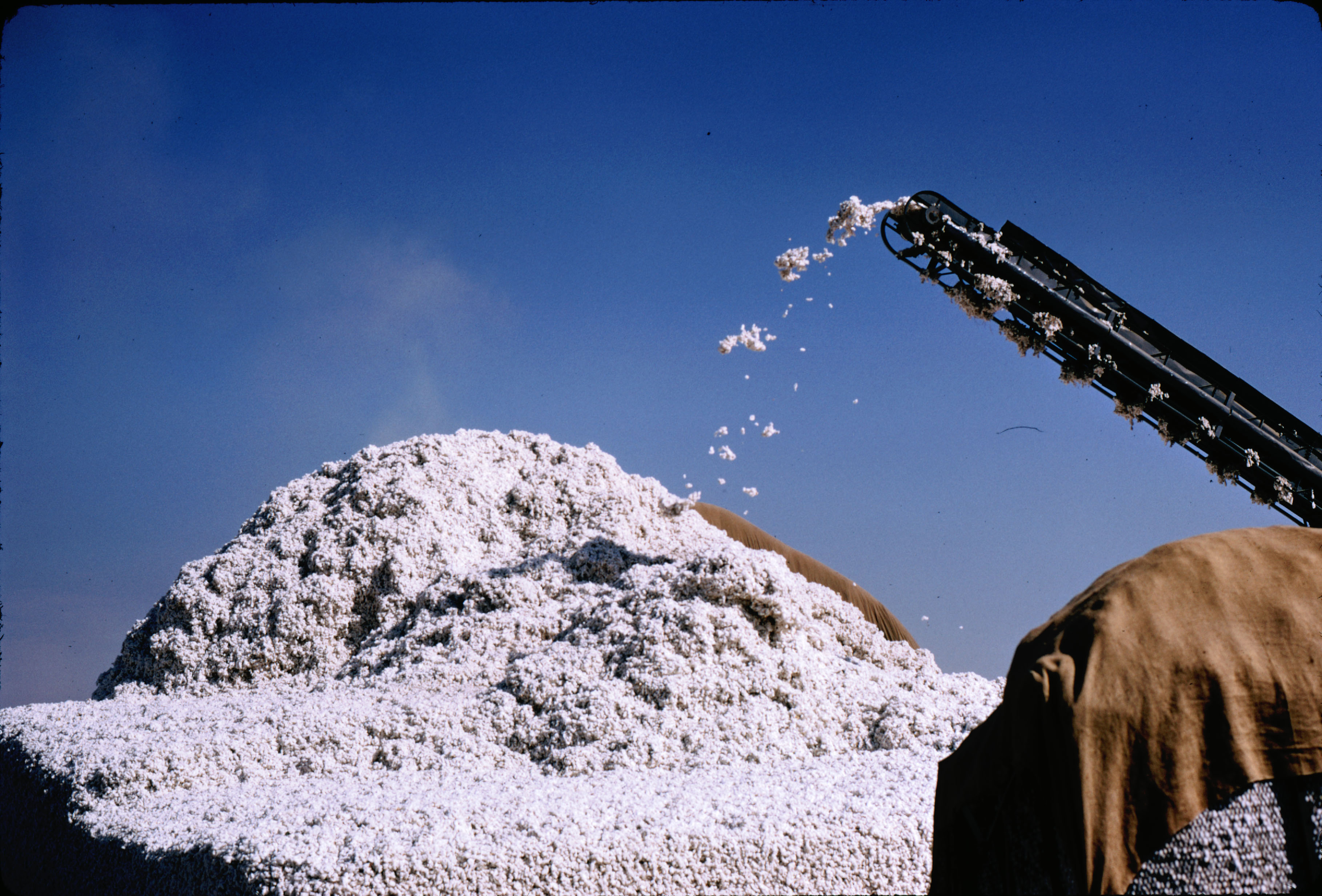 Cotton collected via conveyor belt; Bukhara, Uzbekistan.